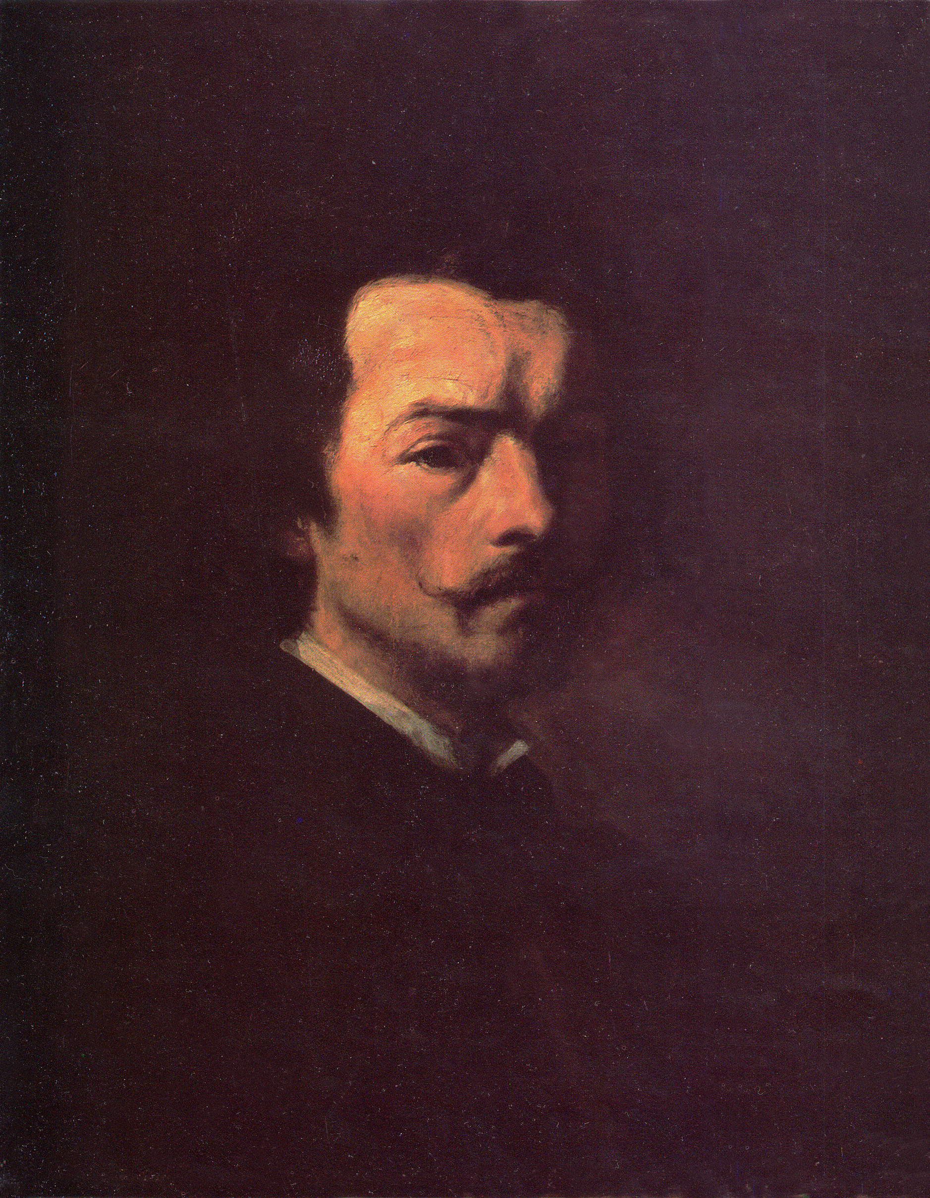 Self-portrait